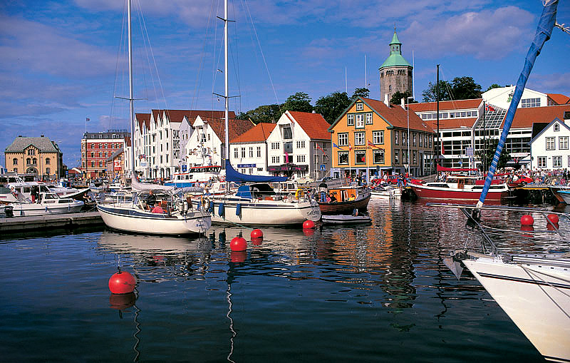 Edited version of Image:Vaagen.jpg